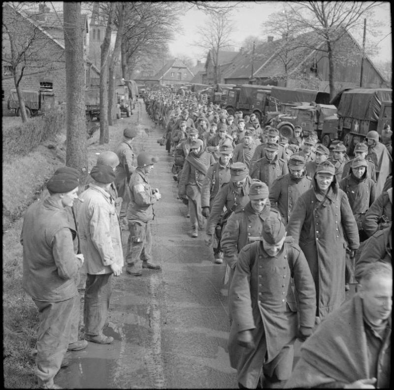 The British Army in North-west Europe 1944-45 A long column of German POWs captured on the outskirts of Munster, 2 April 1945.